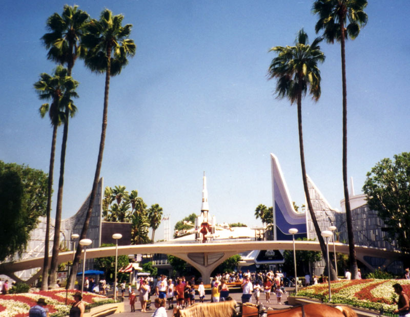 Tomorrowland entrance Disneyland 1996 Taken by Ellen Levy Finch (User:Elf)